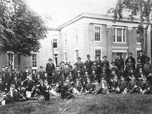 The 1850 DeKalb County Courthouse, pictured here with a gathering of the Grand Army of the Republic. Sycamore, Illinois